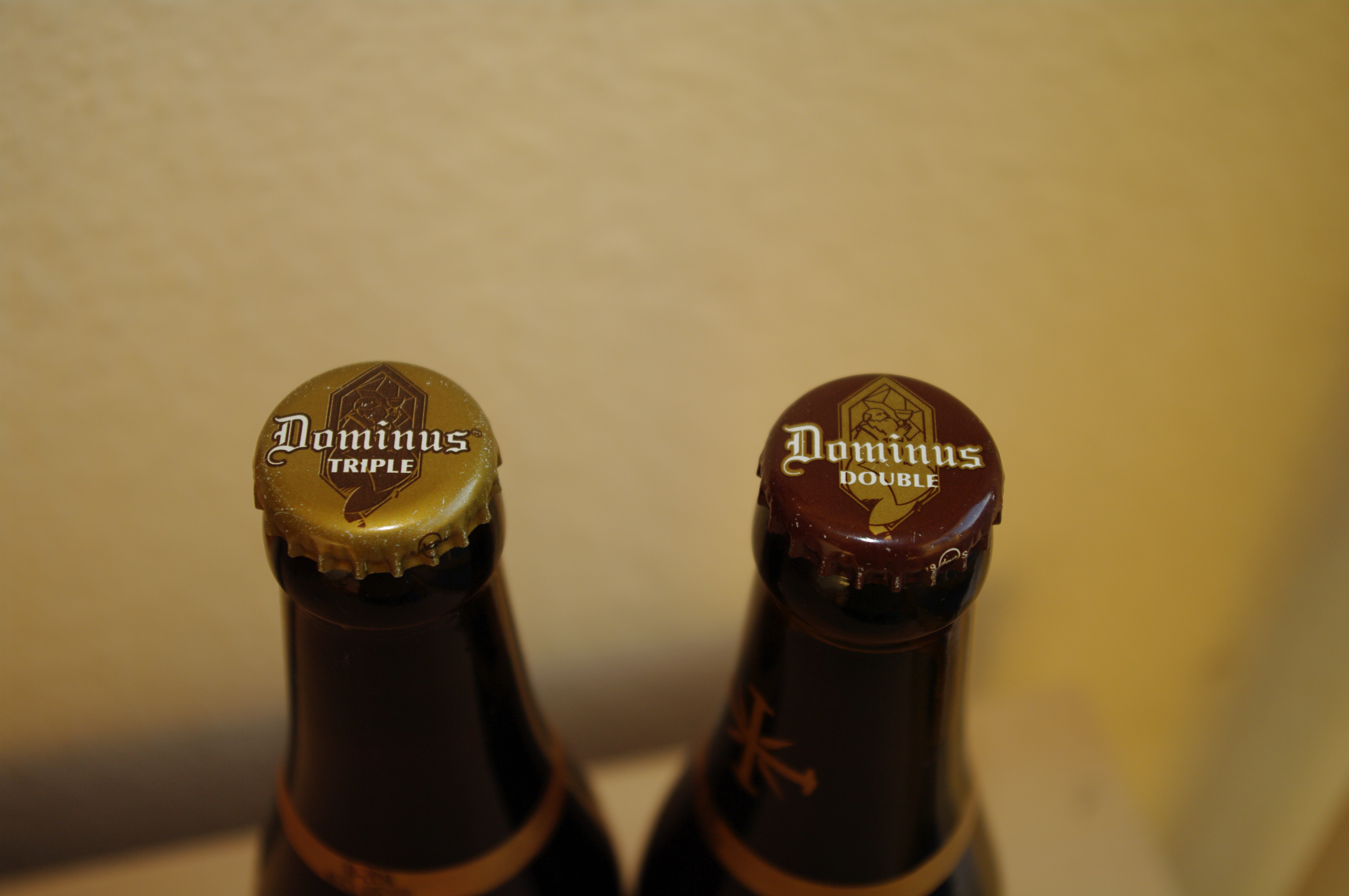 Dominus beer caps